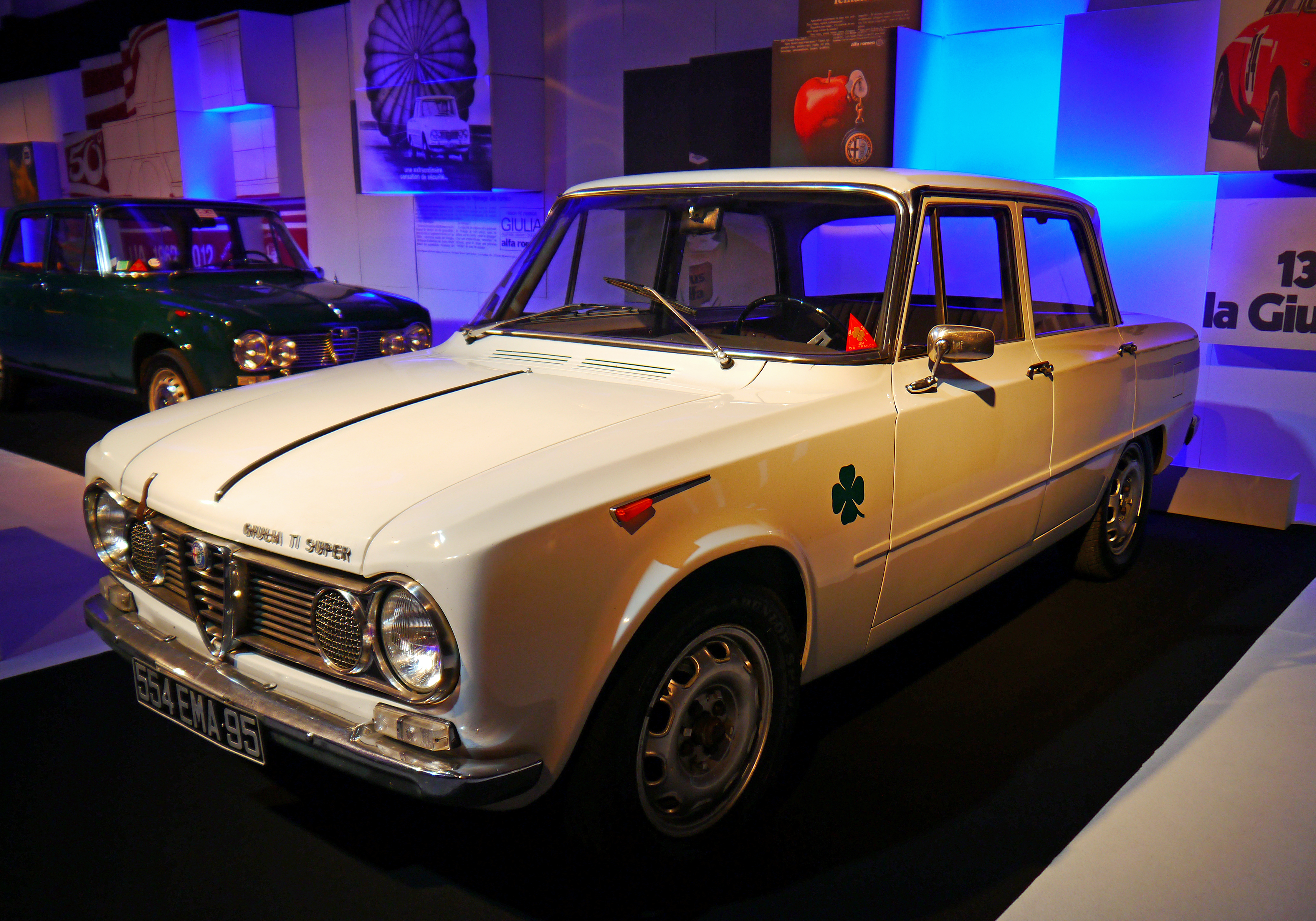 1964 Alfa Romeo Giulia TI Super. 4-cylinder 1600 cc engine (112 bhp) - Top Speed: 189 Km/h.